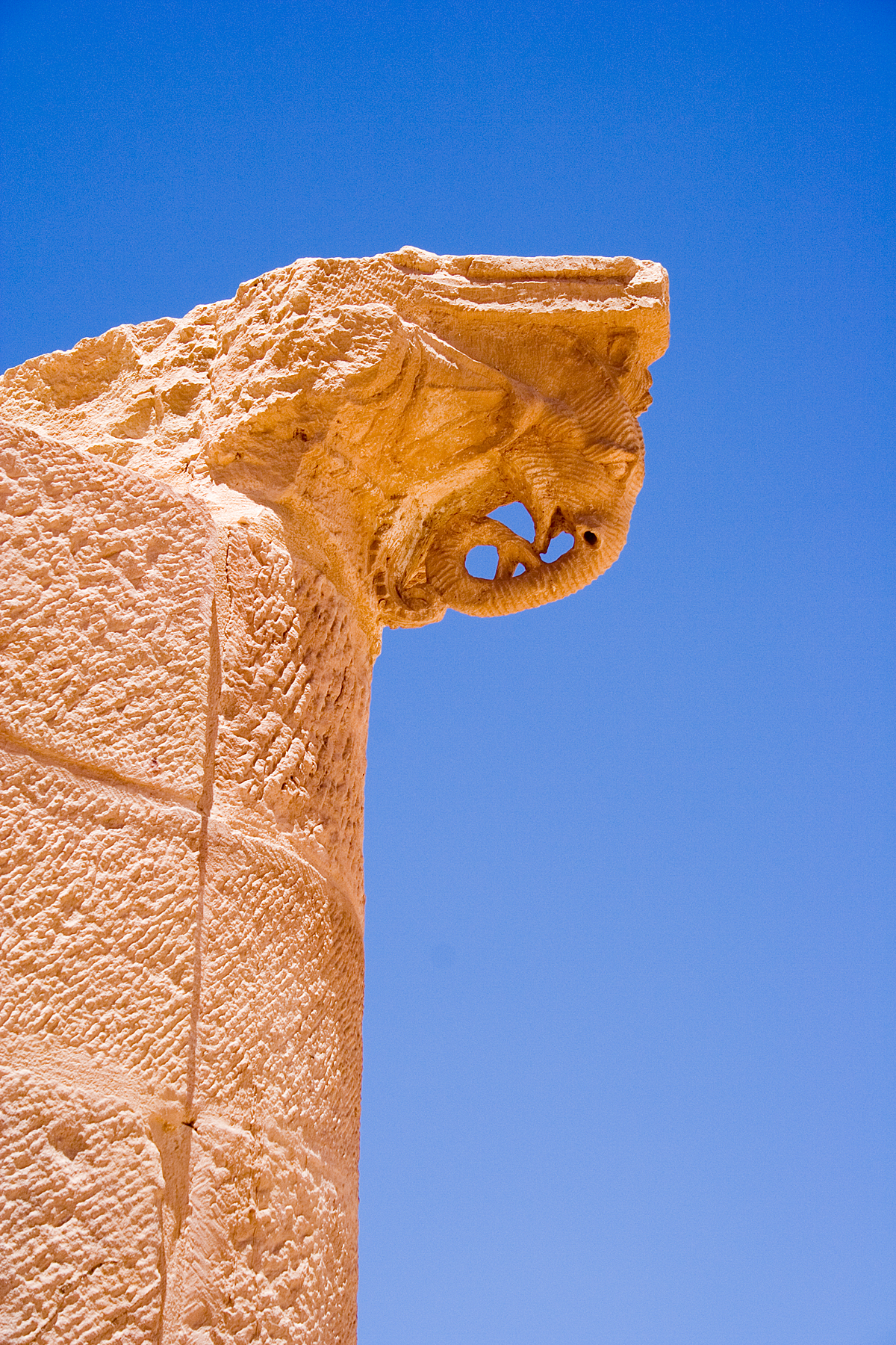 One of the few intact remaining Elephant Head column capitals appears atop a wall in the newly uncovered temple in Petra